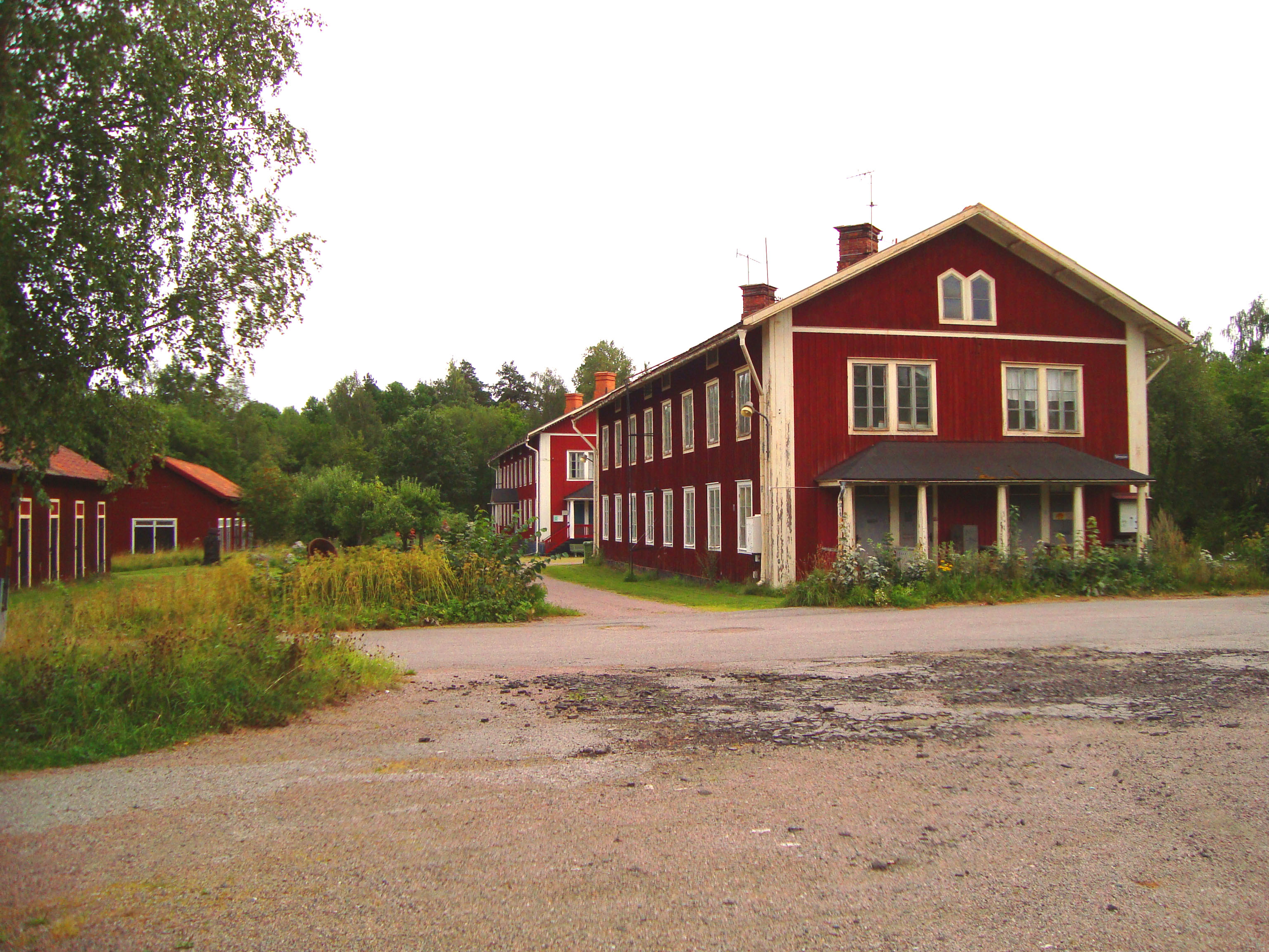 Home town museum of Hofors with the old workers' apartment buildings.